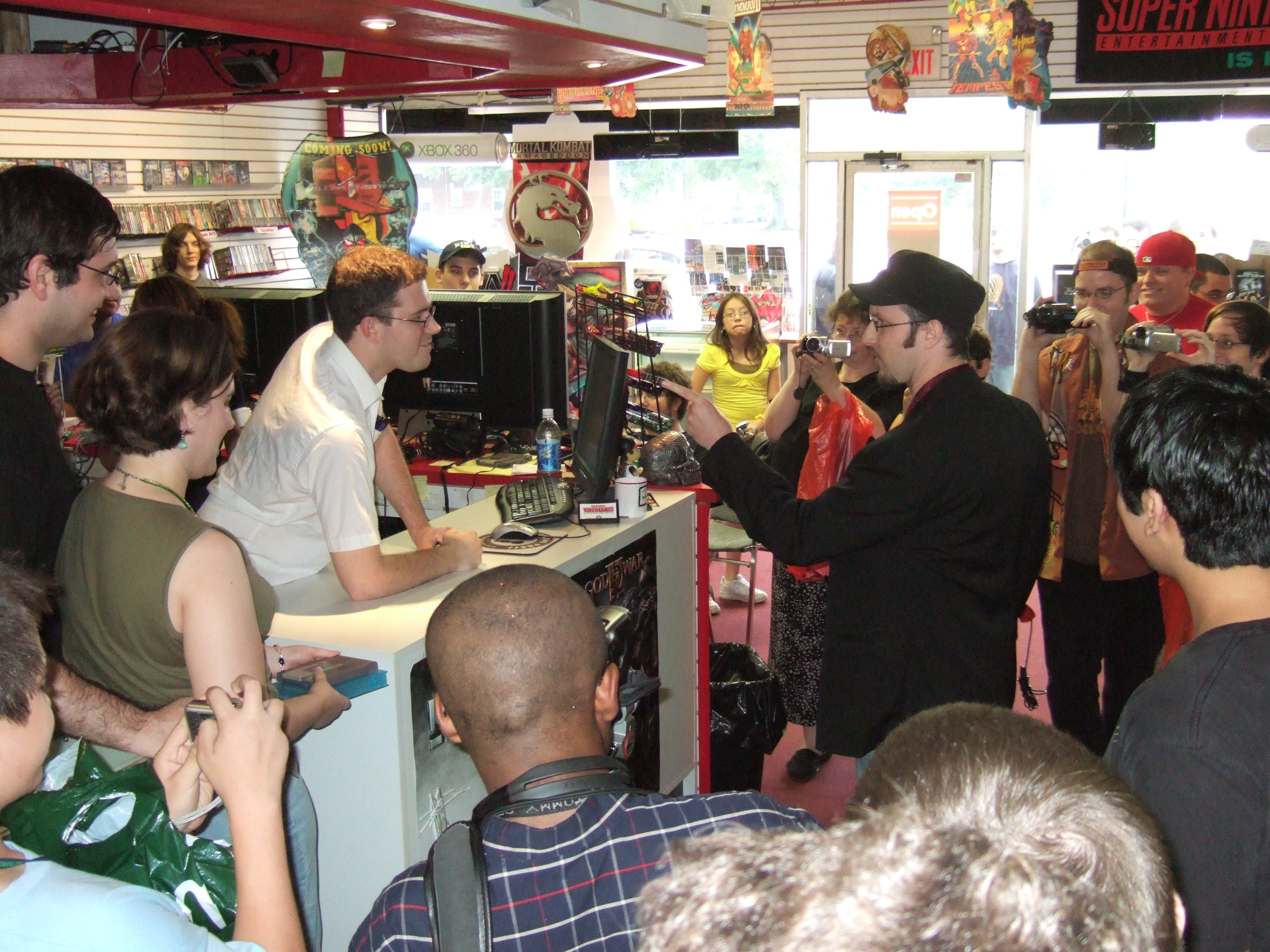 The Nerd (James Rolfe) and the Nostalgia Critic (Doug Walker) come face to face after the Critic accepts the challenge of reviewing a bad game